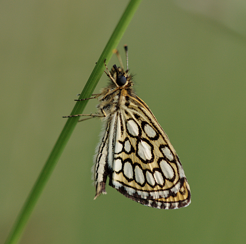 Underside of Heteropterus morpheus, Large Chequered Skipper